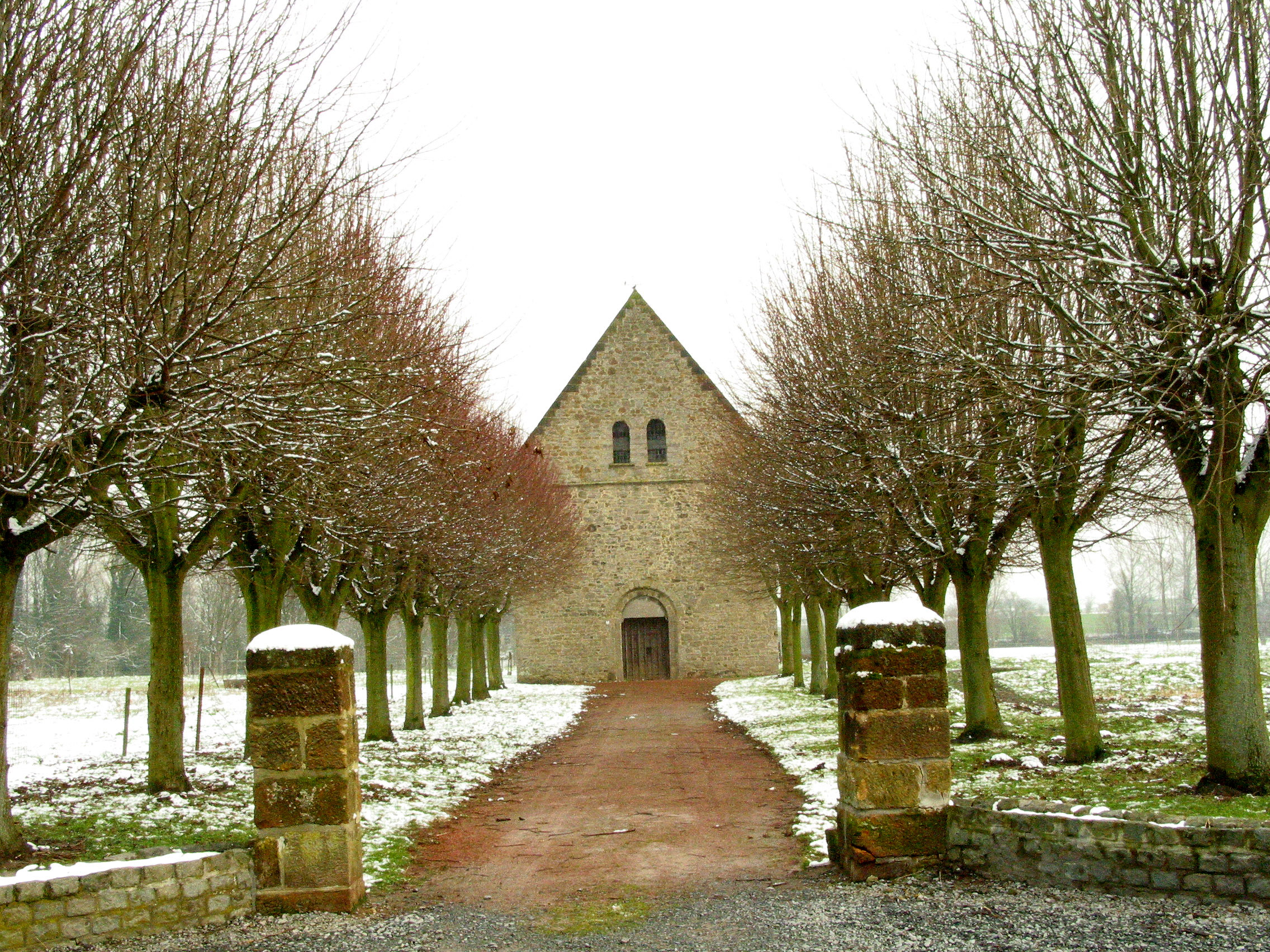 Chièvres (Belgium), the St. John the Baptist chapel (XIIth century).